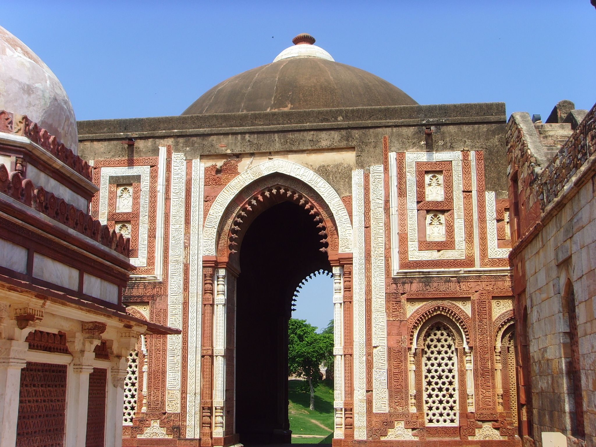 Alai Darwaza (portal from the Khilji period) at Qutb complex (Delhi, India)